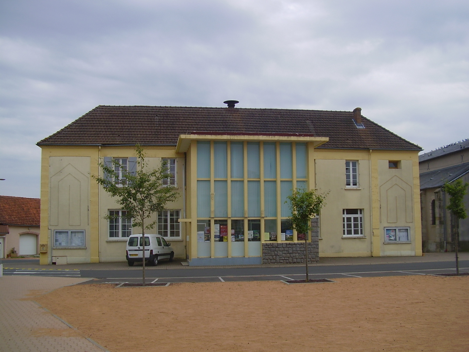 Townhall of Saint-Sylvestre-Pragoulin, Puy-de-Dôme, Auvergne, France